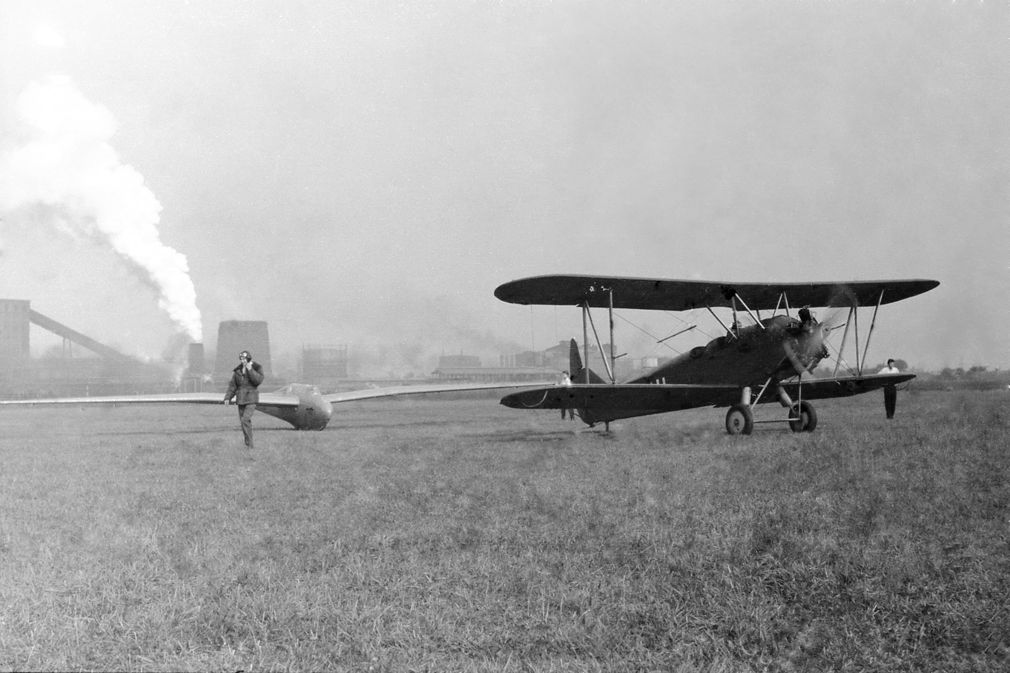 IS-C Żuraw